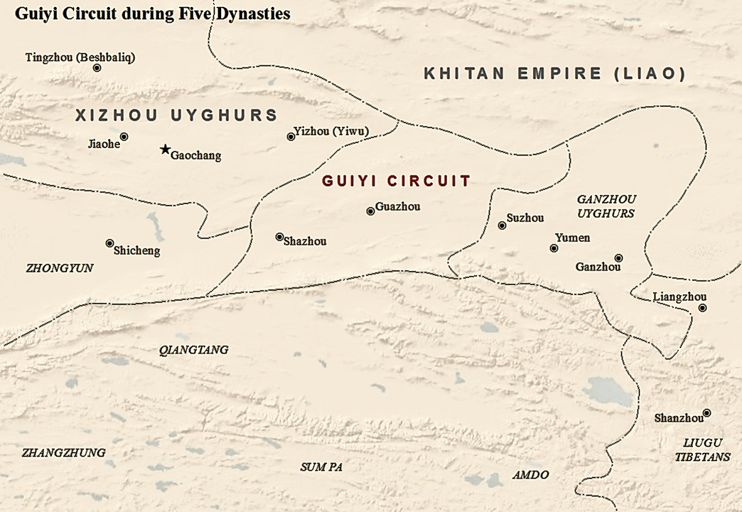 Guiyi Circuit (归义军及周围/Guiyi Jun Jiedushi) during the Five Dynasties and Ten Kingdoms period (907 – 979)